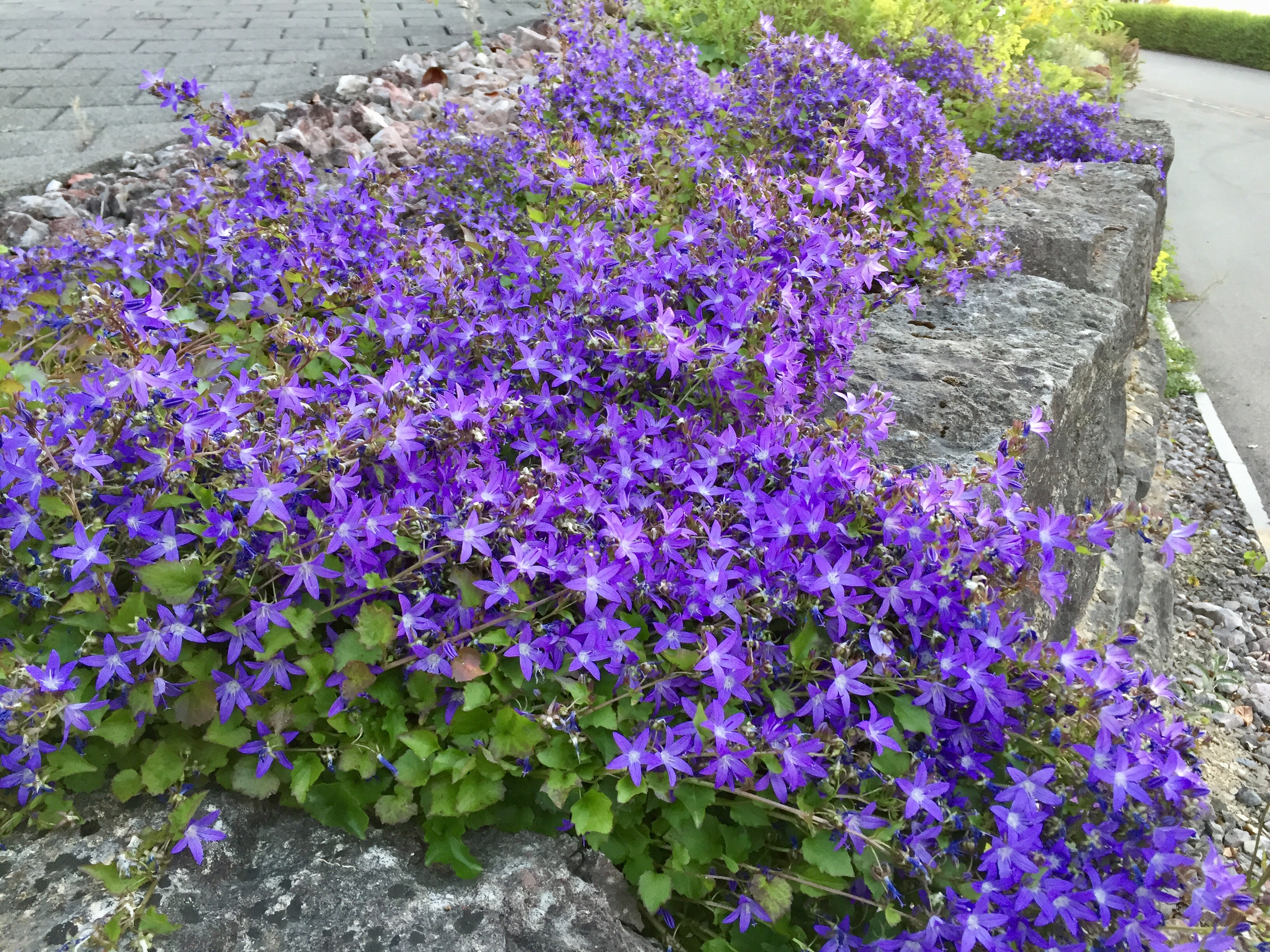 A purple variety of a Campanula poscharskyana.